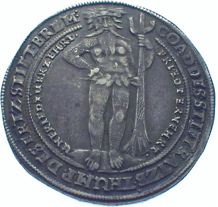 Germany, Principality of Lüneburg, Frederick as prince 1636-1648. Ag 1 Thaler without year, about 1645 (42mm, 29g), reverse: Wild Man, outer circumscr.: COAD[iutor]: DES STIFT RATZB[urg]• THUMP[robst]. DES ERTZSTIFT• BREM[en]: (Coadiutor of the Stift of Ratzeburg• Provost of the Archbishopric of Bremen), inner: FRIEDT ERNEHRT• UNFRIEDT UERZEHRT• (Peace nourishes• Strife consumes•) Welter 1417.